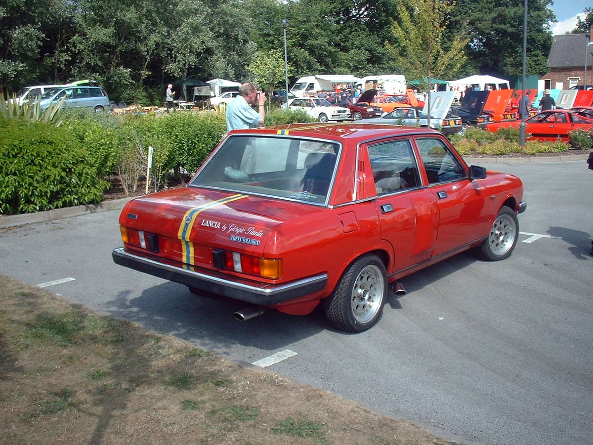 Rear view of 1984 Lancia Trevi Volumex (VX) Bimotore prototype at 2005 Lancia Motor Club AGM: the Bimotore (Italian for "Twin-engine") is powered by two transversely engines — a standard front-engine, and an additional rear mid-engine — with Volumex superchargers, to create an experimental four-wheel drive.